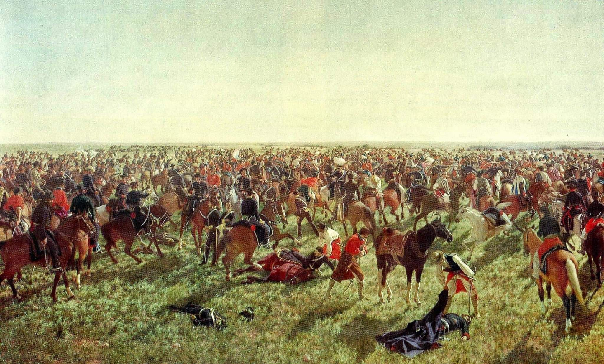 Battle of Sarandi. Oil on canvas